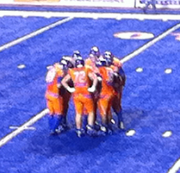 The Boise State offense in a huddle during their game vs Fresno State at Bronco Stadium in Boise, Idaho on November 19, 2010.